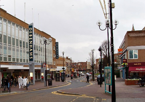 Department store, Harrow. There is an adjacent pedestrianised shopping area